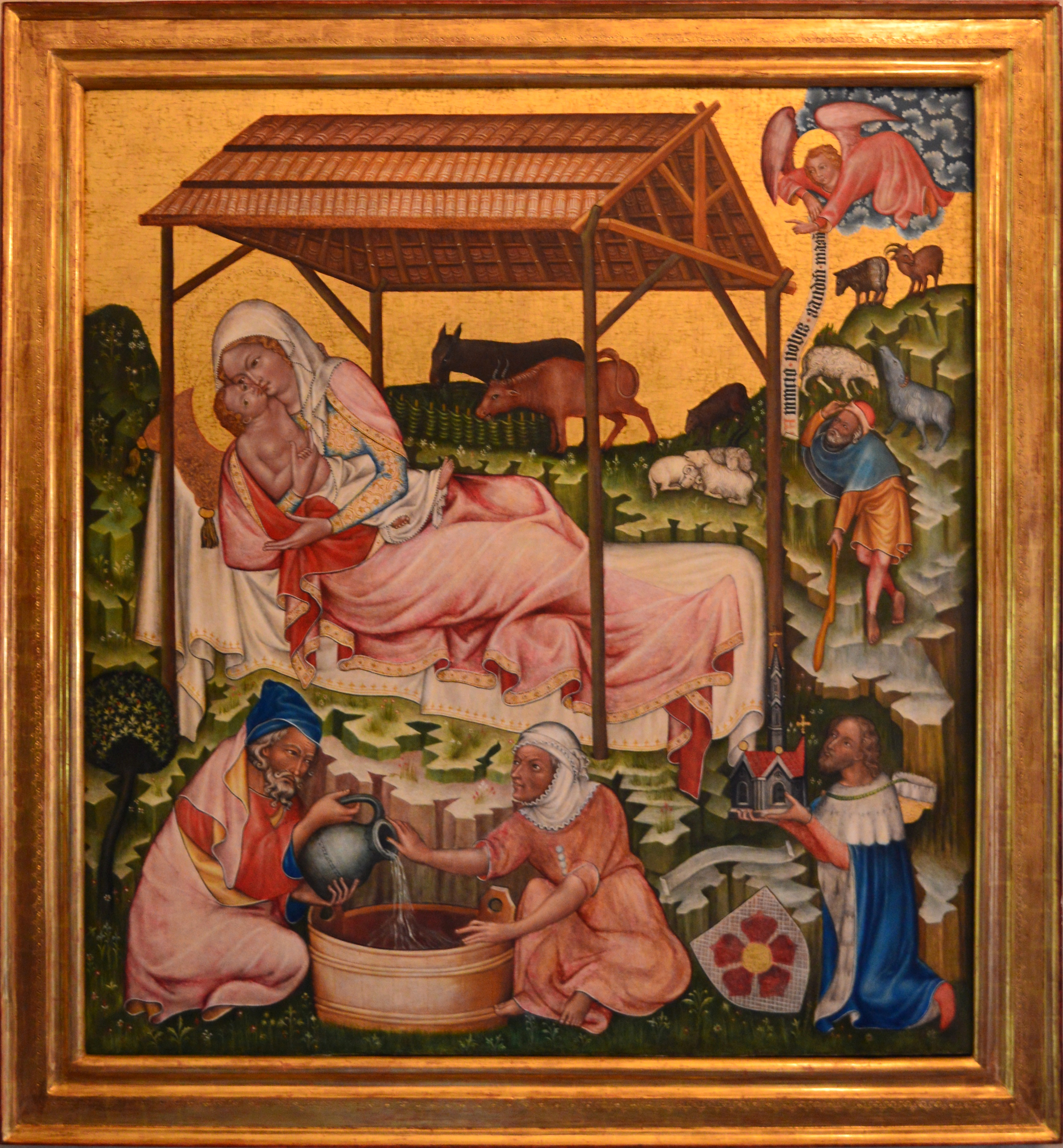 Český Krumlov is a small city in the South Bohemian Region of the Czech Republic and Old Český Krumlov is a UNESCO World Heritage Site. Construction of the town and Český Krumlov Castle began in the late thirteenth century at a ford in the Vltava River, which was important in trade routes in Bohemia. In 1302 the town and the castle were owned by the House of Rosenberg. Emperor Rudolf II bought Krumlov in 1602 and gave it to his natural son Julius d’Austria. Emperor Ferdinand II gave Krumlov to the House of Eggenberg. From 1719 until 1945 the castle belonged to the House of Schwarzenberg. Most of the architecture of the old town and castle dates from the fourteenth through seventeenth centuries - the town's structures are mostly in Gothic, Renaissance, and Baroque styles. The core of the old town is within a horseshoe bend of the river, with the old Latrán neighborhood and castle on the other side of the Vltava.The Scotch Mist Gallery contains many photographs of historic buildings, monuments and memorials of Poland and beyond.